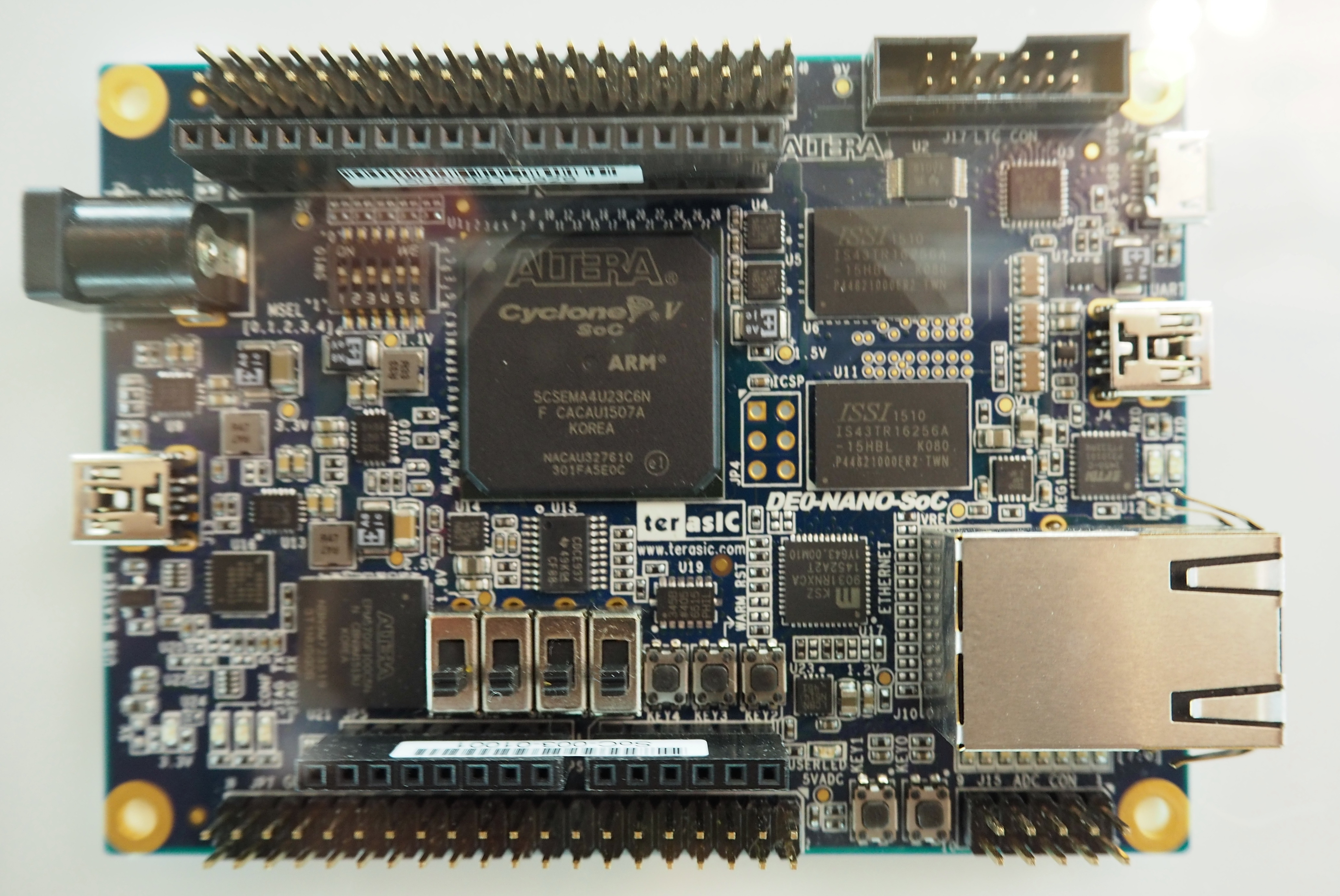 Embedded World fair 2016 in Nuremberg - Altera Cyclone-V SE with ARM Cortex-A9